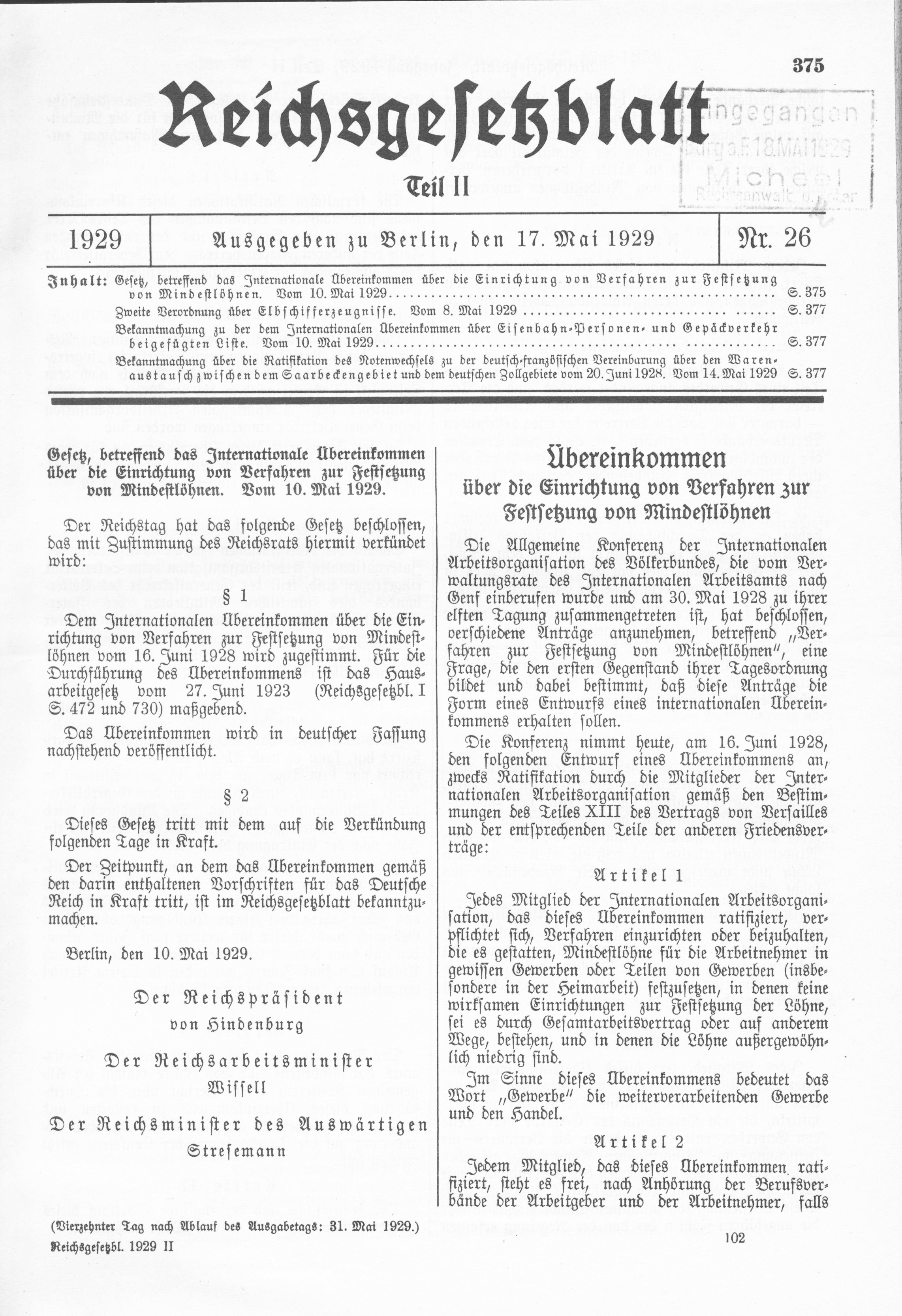 Scan from the Imperial Law Gazette of Germany, 1929, part 2